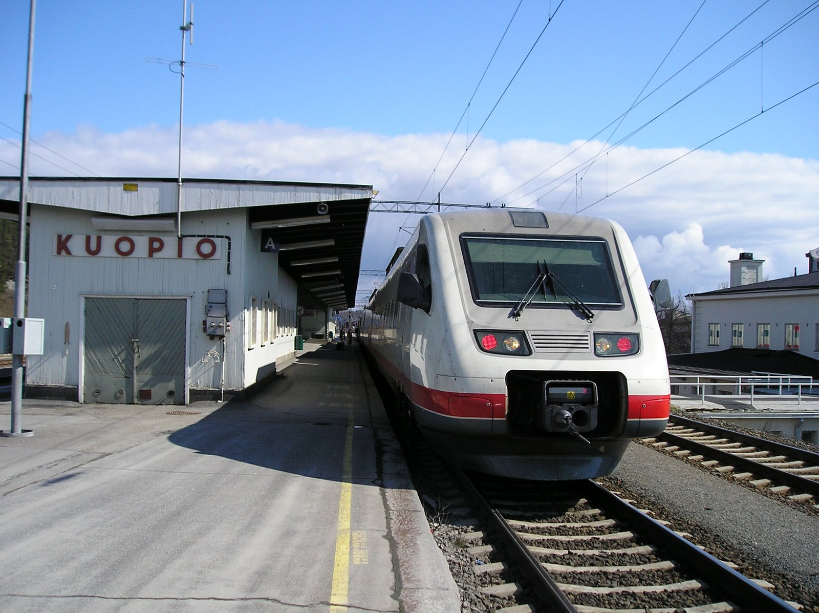 VR Class Sm3 Pendolino at Kuopio railway station in Kuopio, Finland